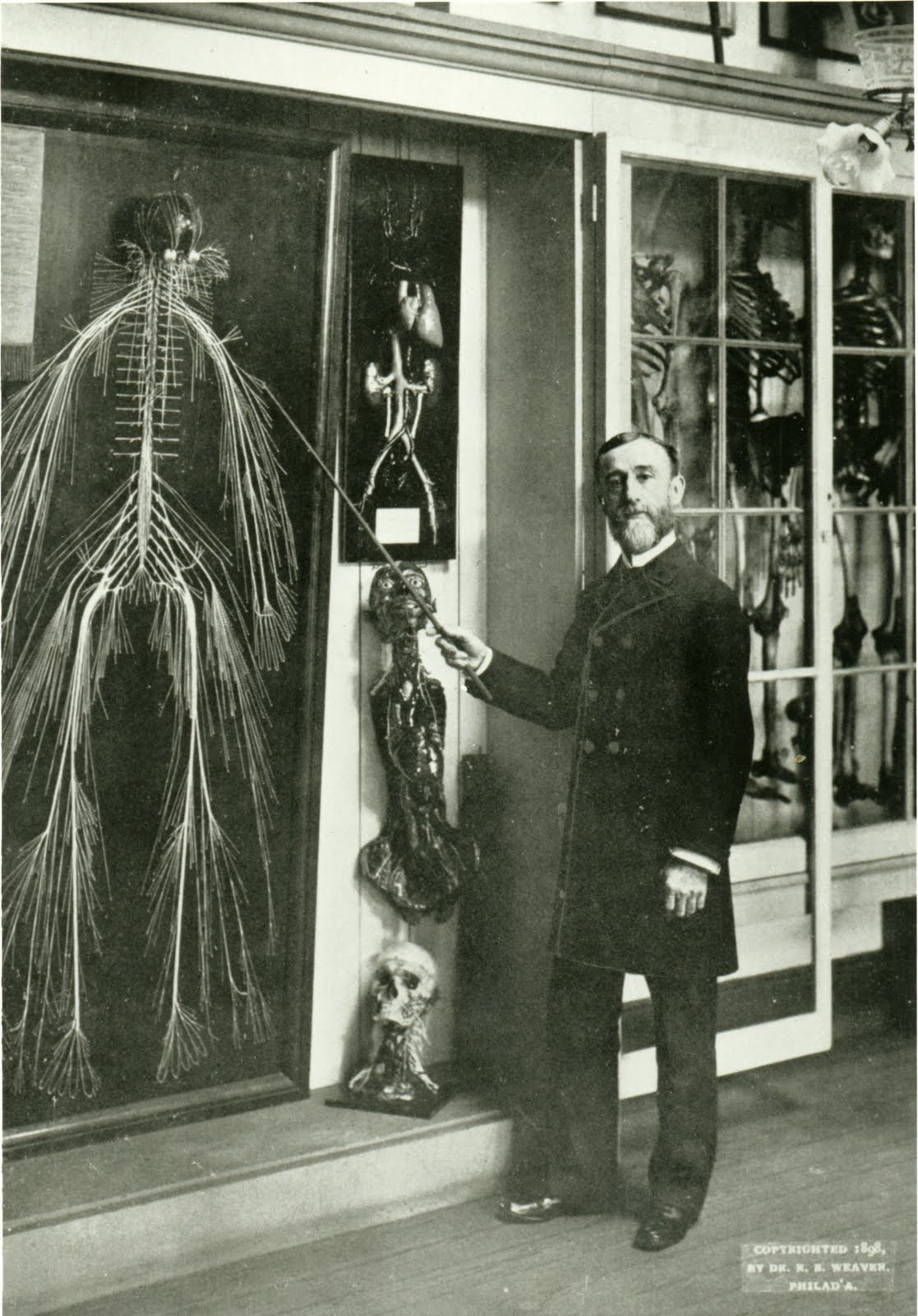 Dr. Rufus B. Waever and his specimen "Harriet"